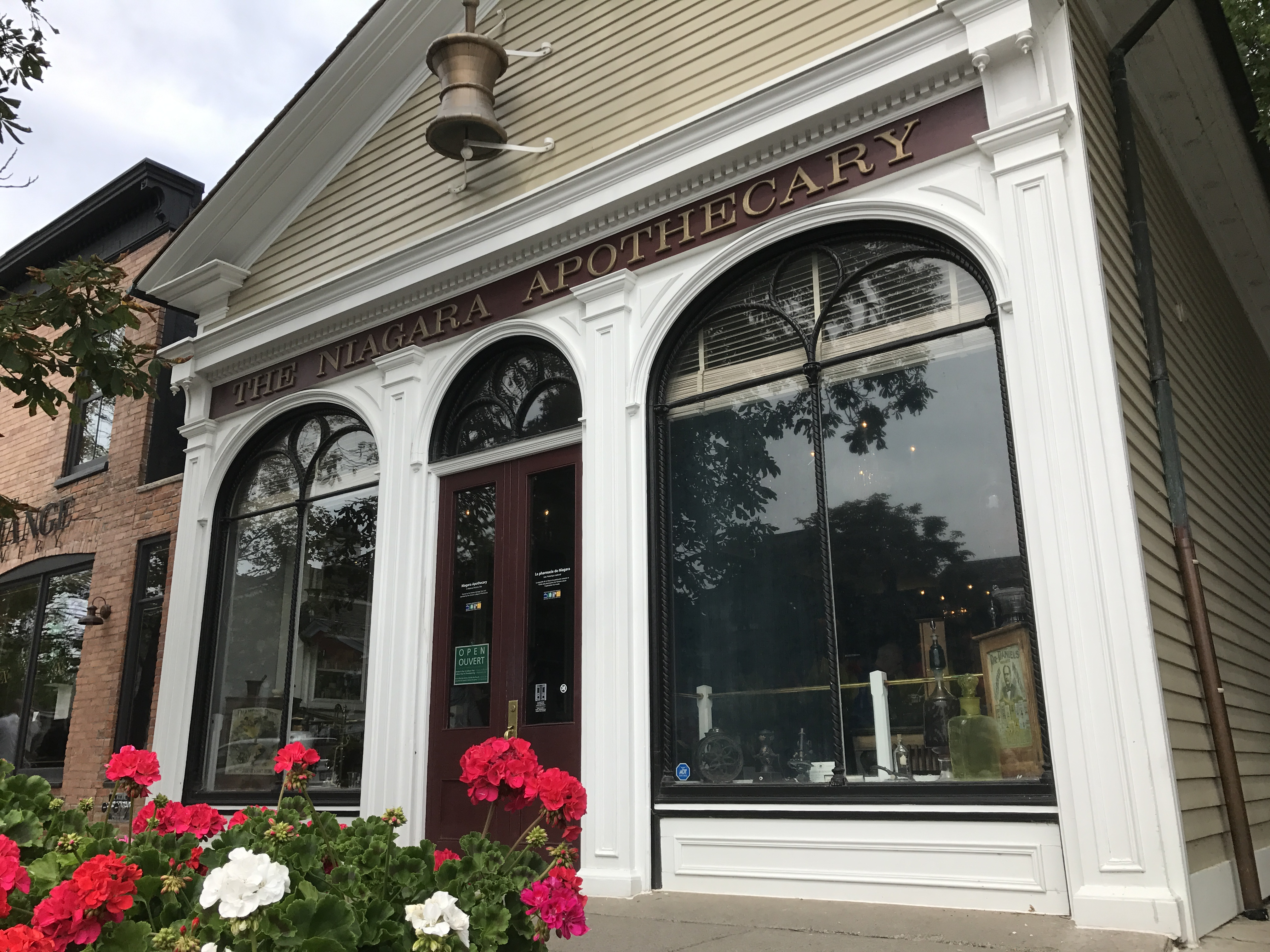 The front enterance of the Niagara Apothecary Museum at 5 Queen St, Niagara-on-the-Lake, ON L0S 1J0